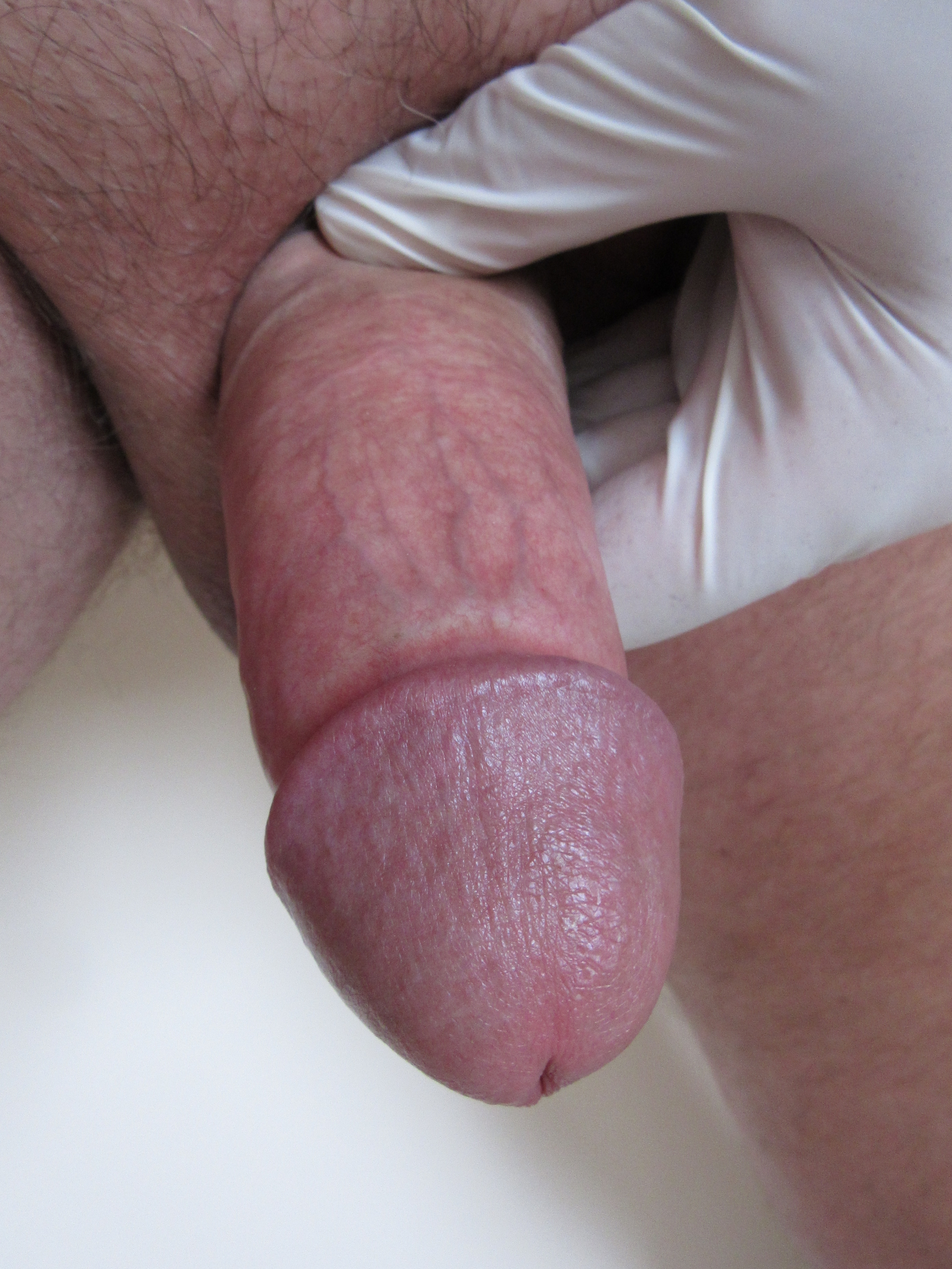 Ealuation of the retractability of the foreskin during the medical examination.